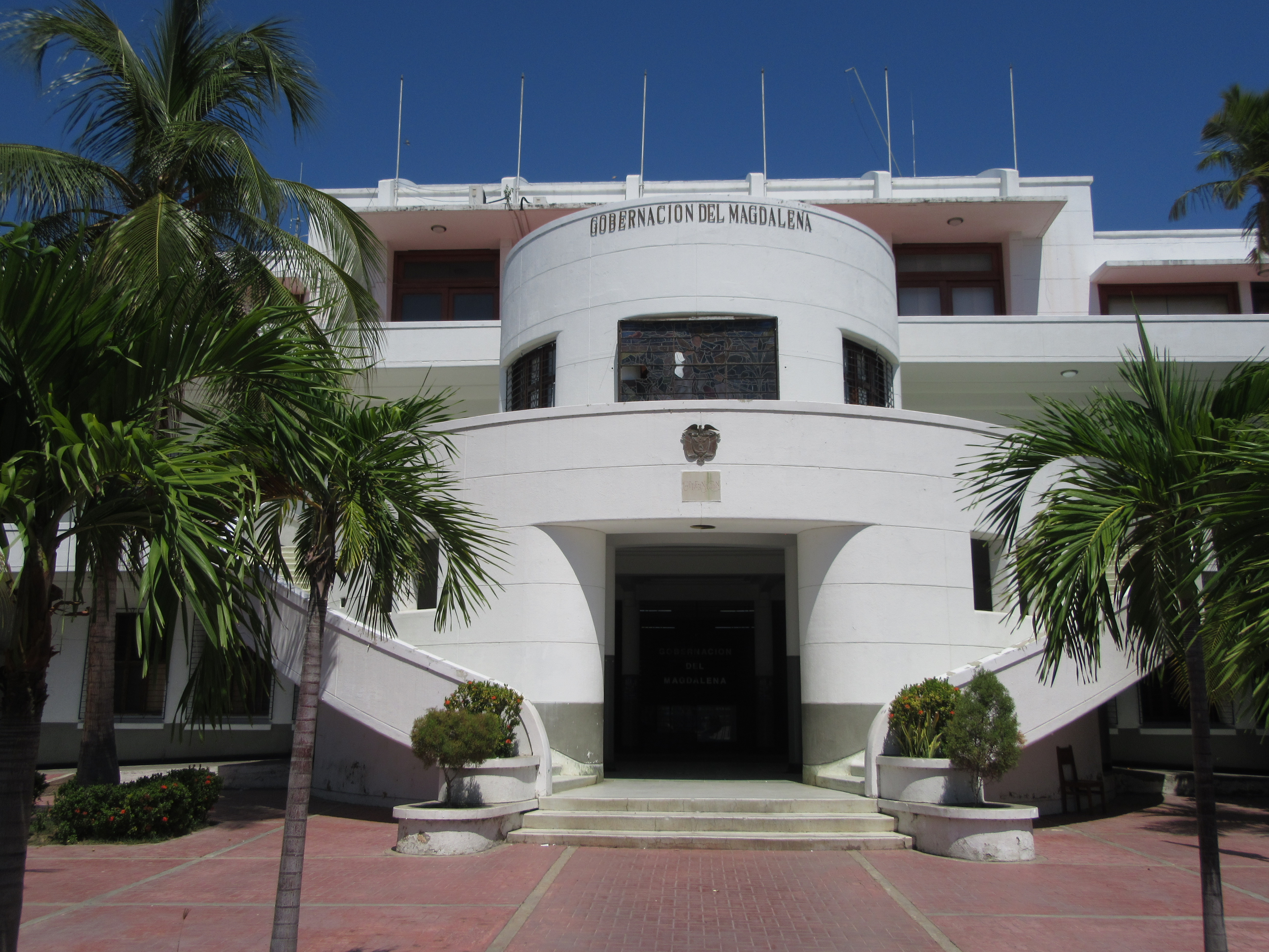 Santa Marta